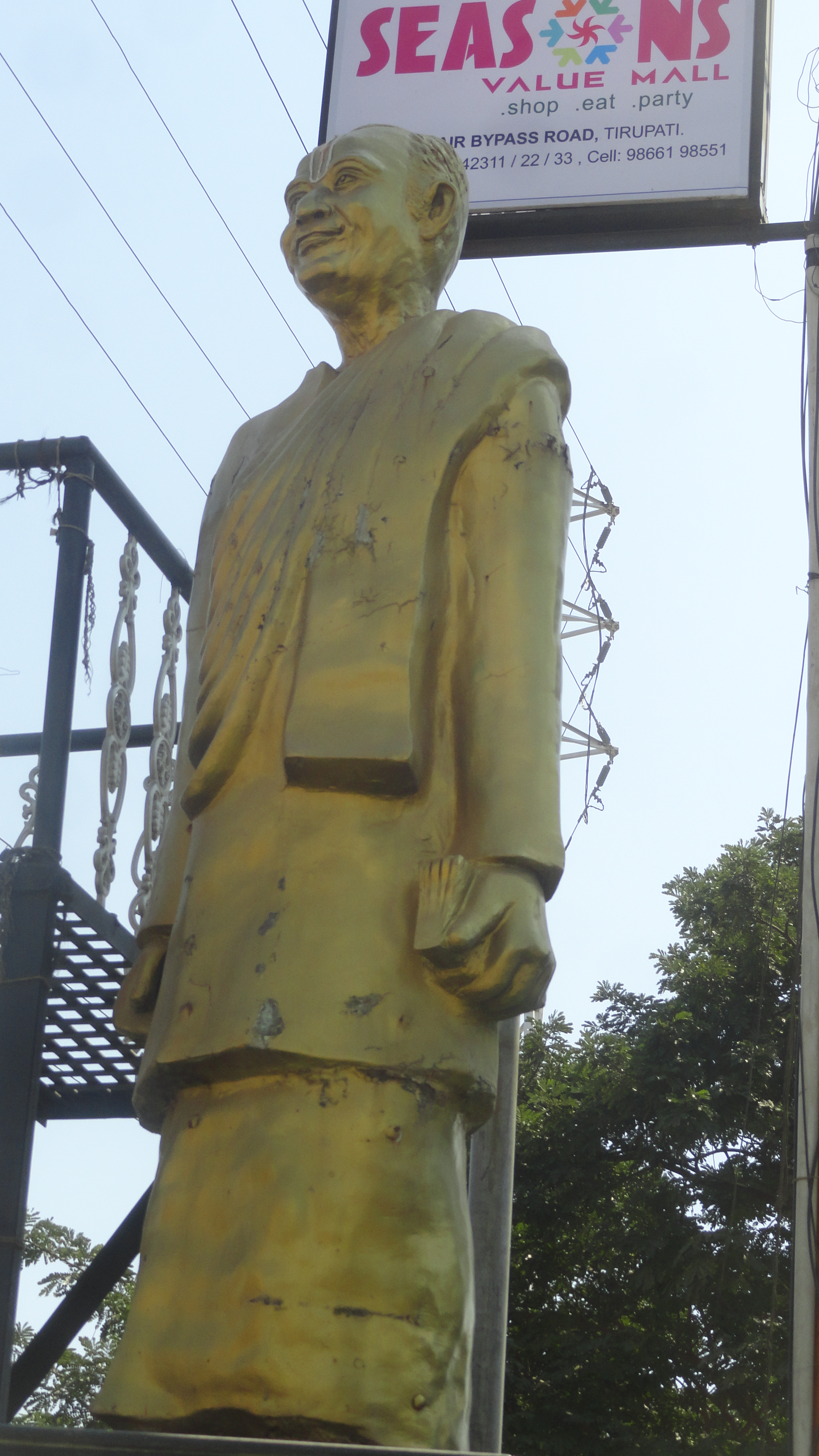 SankarambaDi sumdaracarya.